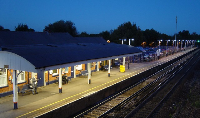 Hook railway station Original description: Hook Station The platform for London-bound trains at about 6.20pm.